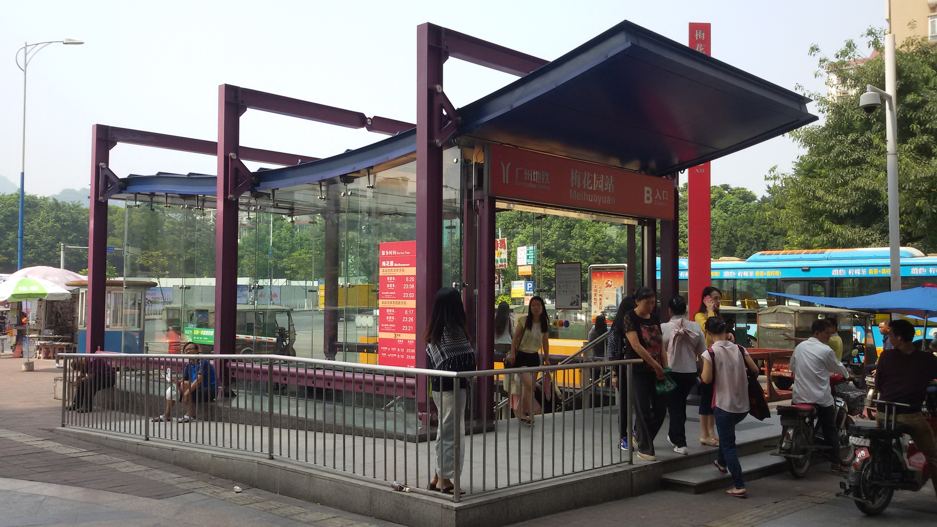 Exit B, Meihuayuan Station, Guangzhou Metro